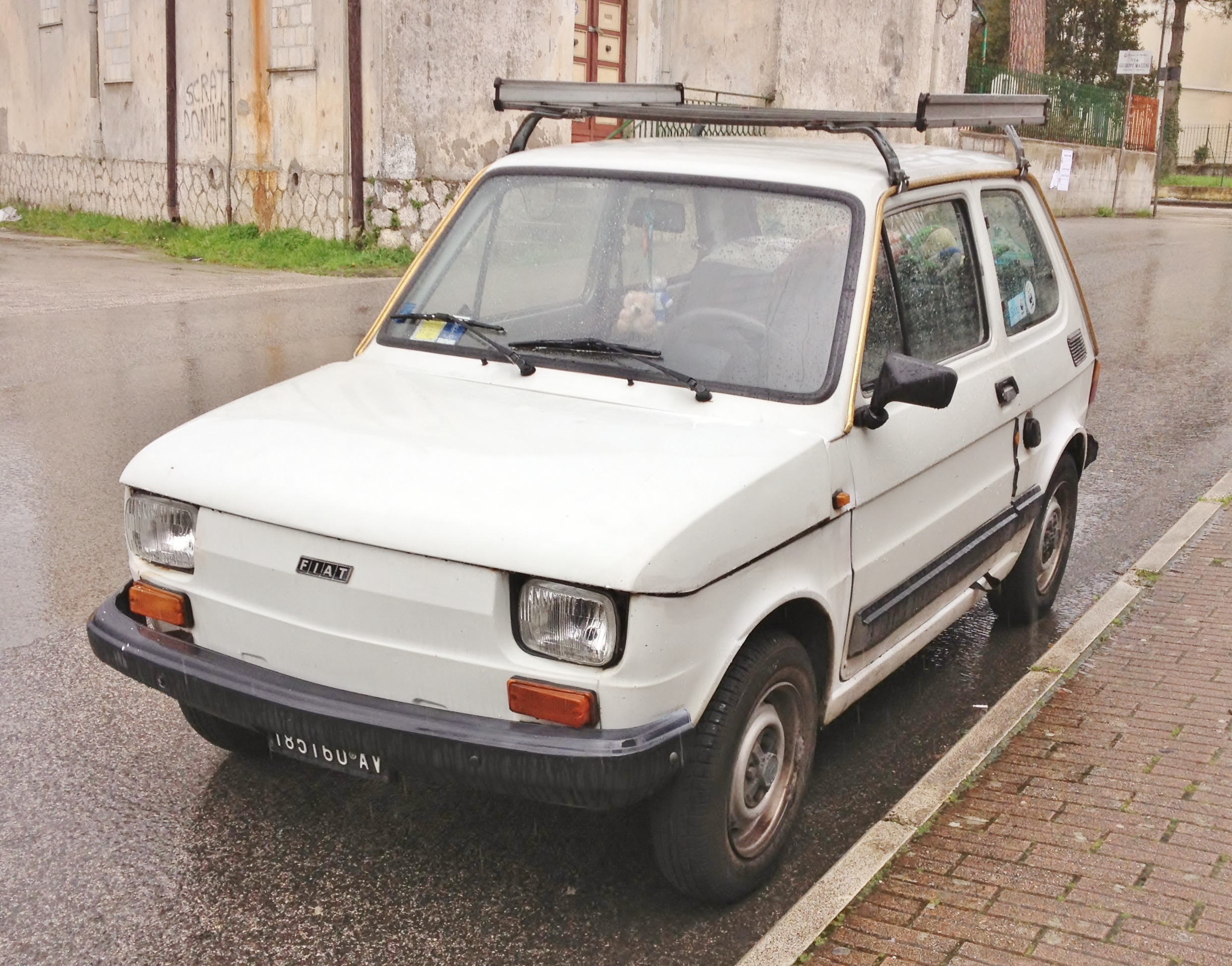 Fiat 126 Personal 4 front